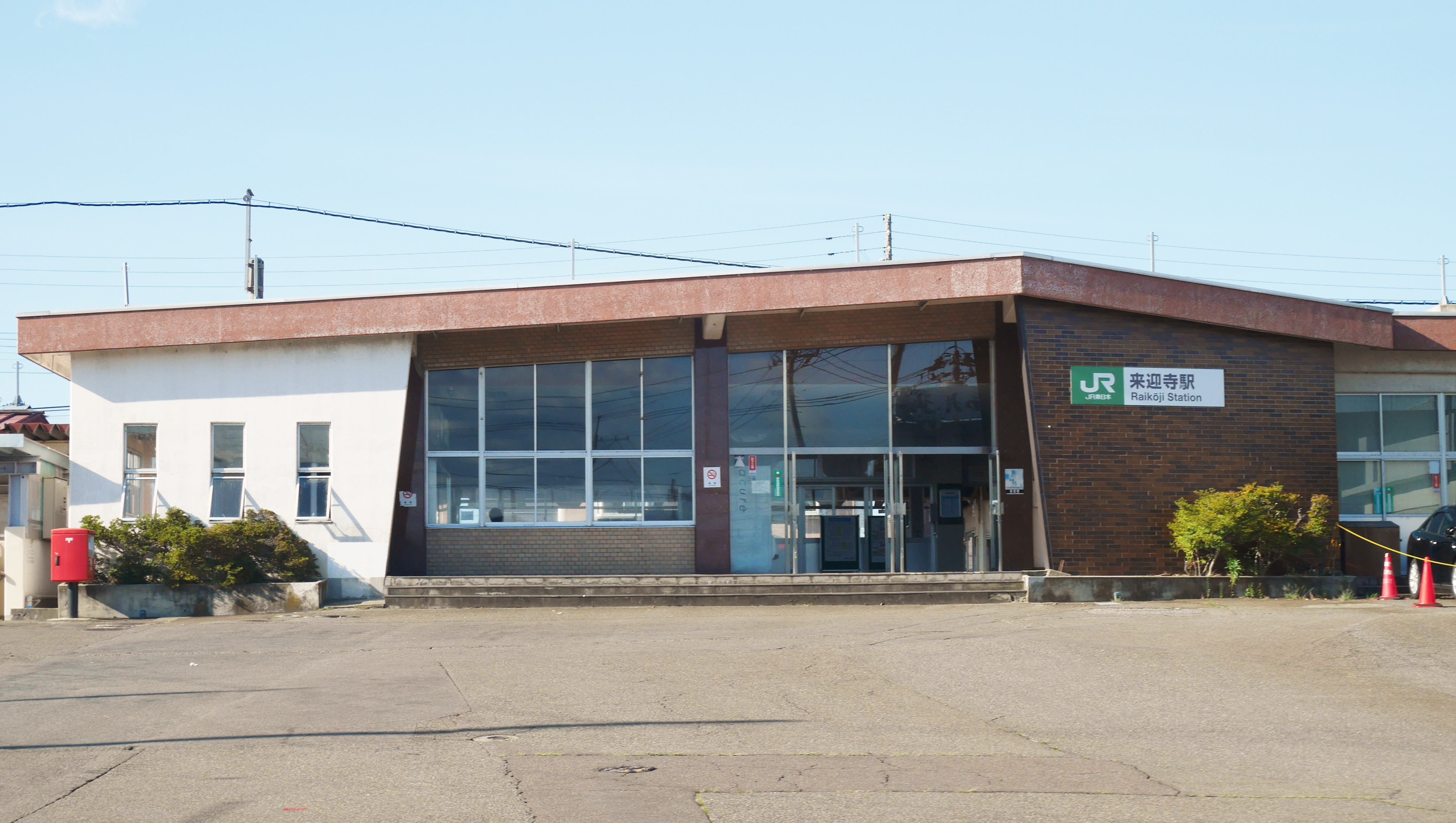 East Japan Railway Company. Raikoji Station. Nagaoka city , Niigata , Japan